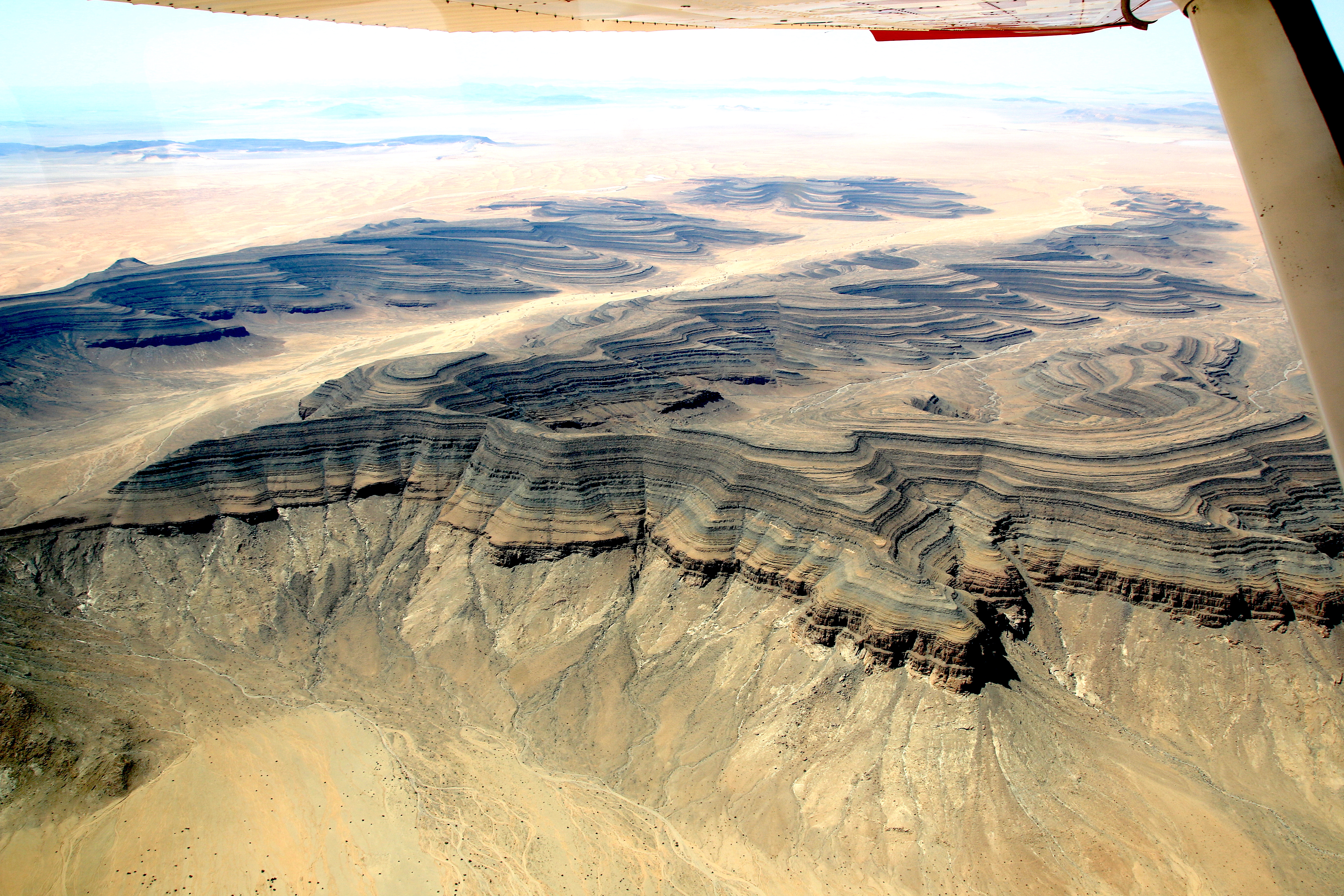 Tsaus Mountais (2018)